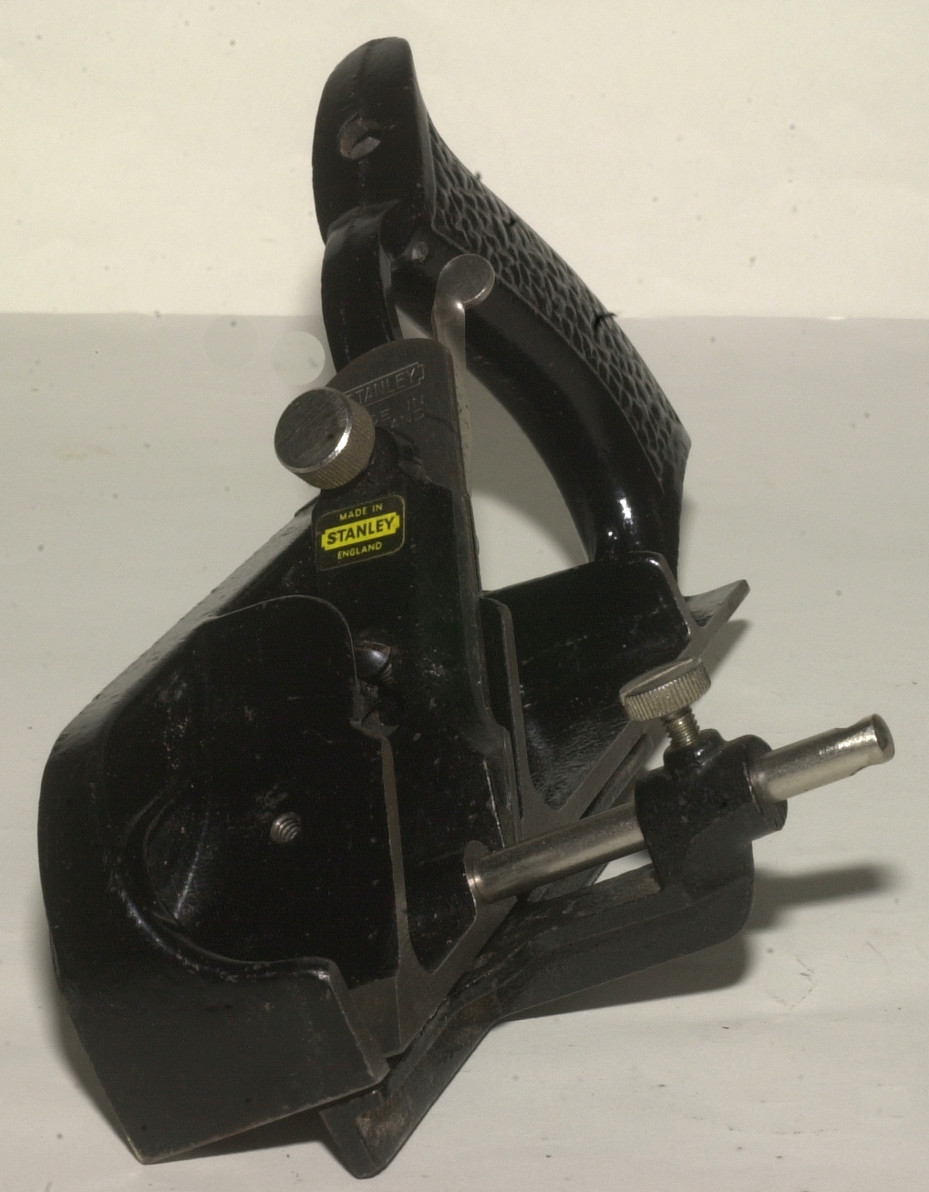 Stanley #78 Duplex Fillister and Rabbet Plane - made in England. Showing the fence in use.